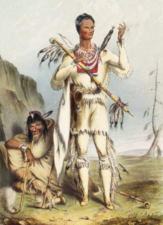 Engraving or lithograph of lost painting by Charles Bird King, showing Winnebago (or Ho-Chunk) men Red Bird and Wekau. Red Bird (standing) is dressed in a white buckskin outfit that was specially made for his surrender to U.S. authorities during the 1827 Winnebago War.